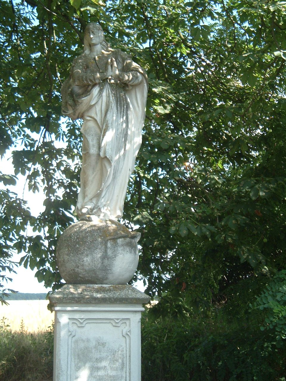 Mary-statue in Szentléránt (Sorkifalud), Hungary